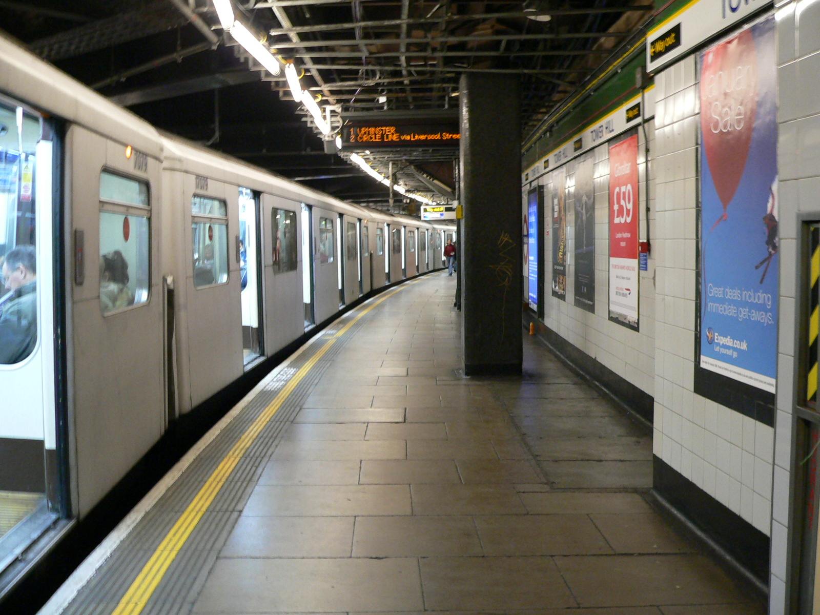 An eastbound London Underground District Line D stock EMU at platform 3 of Tower Hill tube station with a service to Upminster.